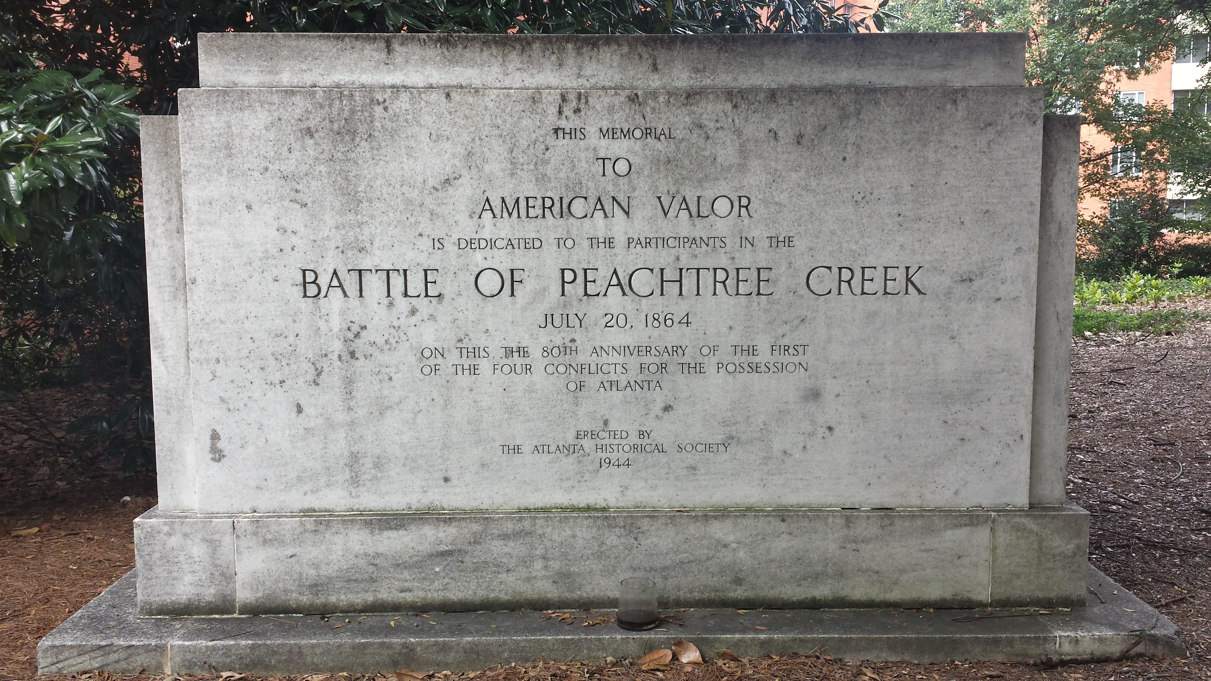 Battle of Peachtree Creek Memorial on the grounds of Piedmont Buckhead Hospital North of the corner of Collier Road and Peachtree Road on the site of the battle on 20July1864.